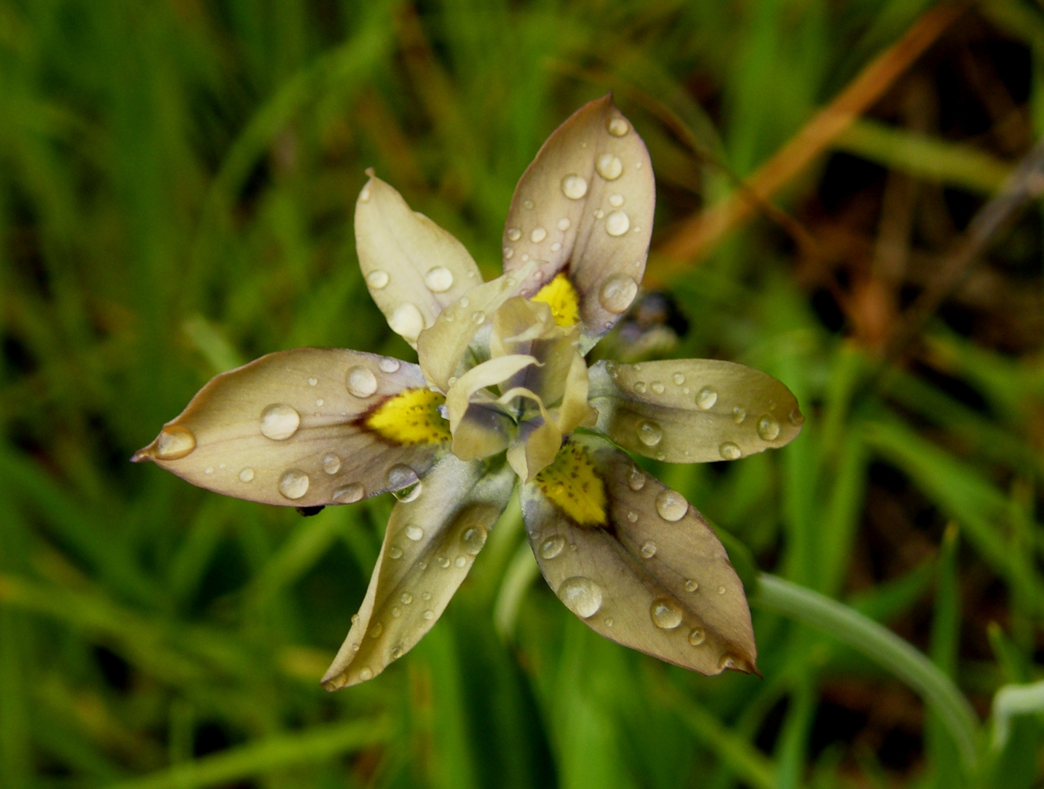 cormous geophyte